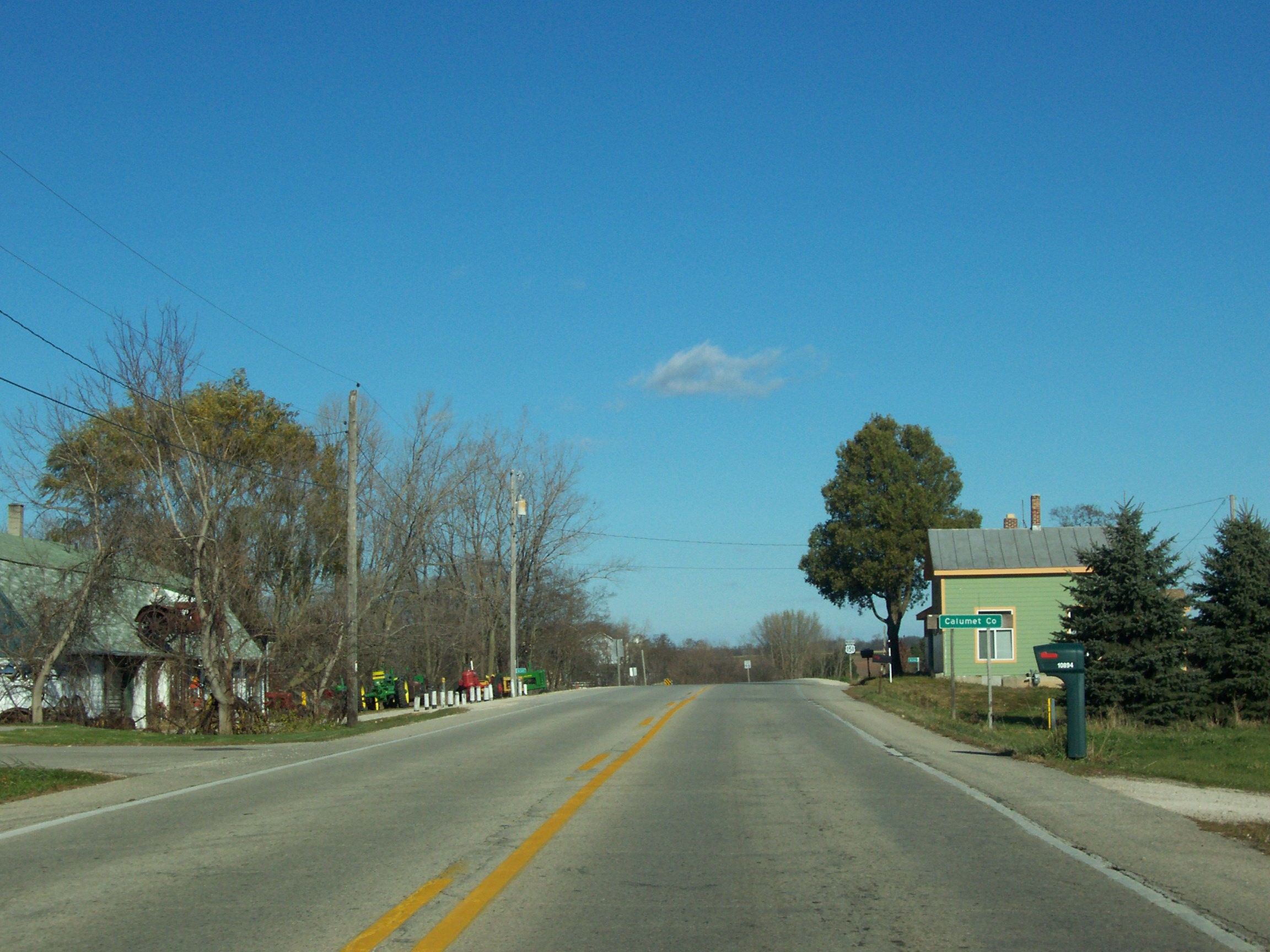 Looking north at the small portion of Calumetville, Wisconsin, USA in Calumet County, Wisconsin while traveling on U.S. Route 151.